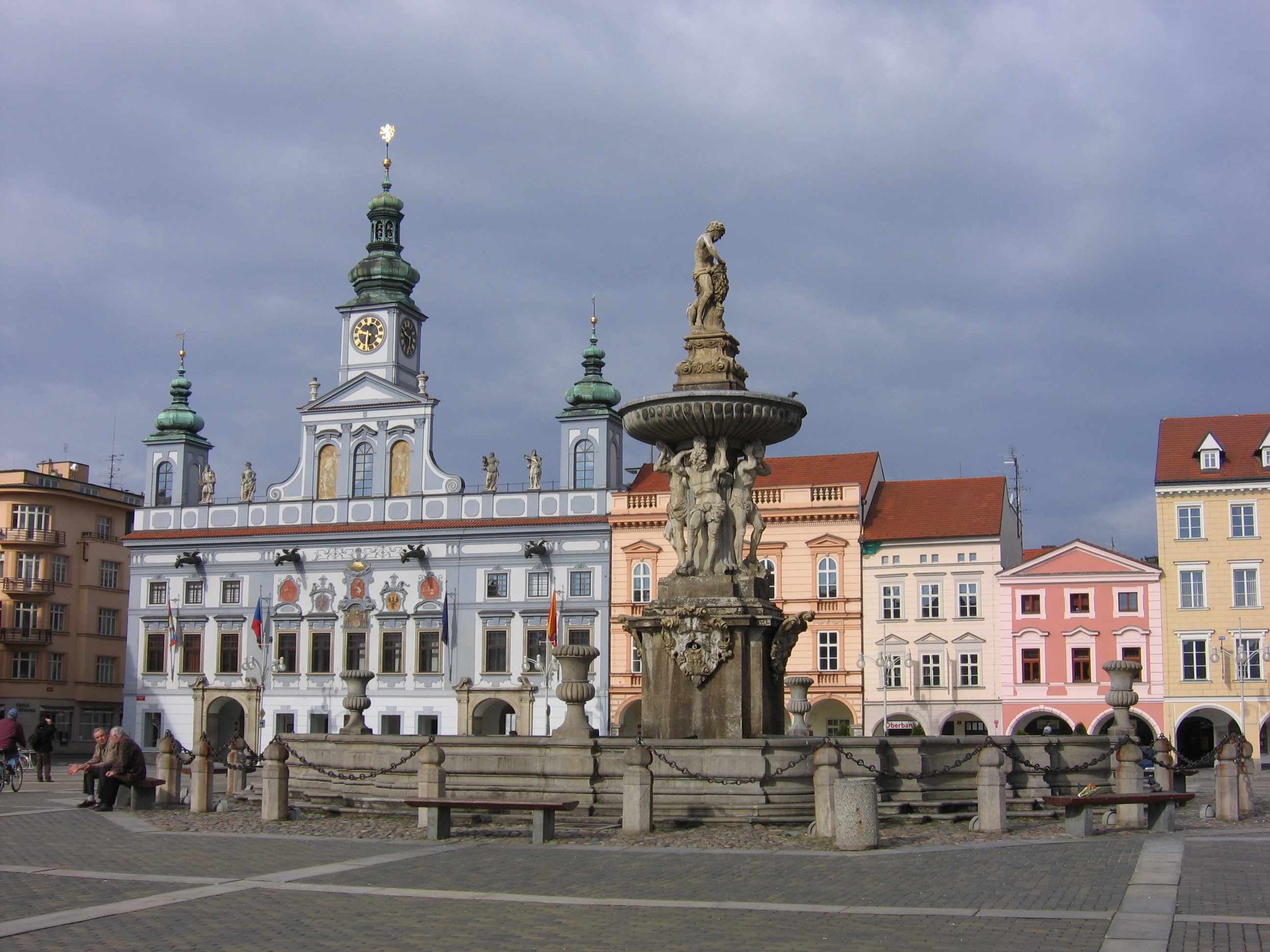 České Budějovice, Czech Republic: Baroque Town Hall and Samson fountain, South Bohemian region nápověda